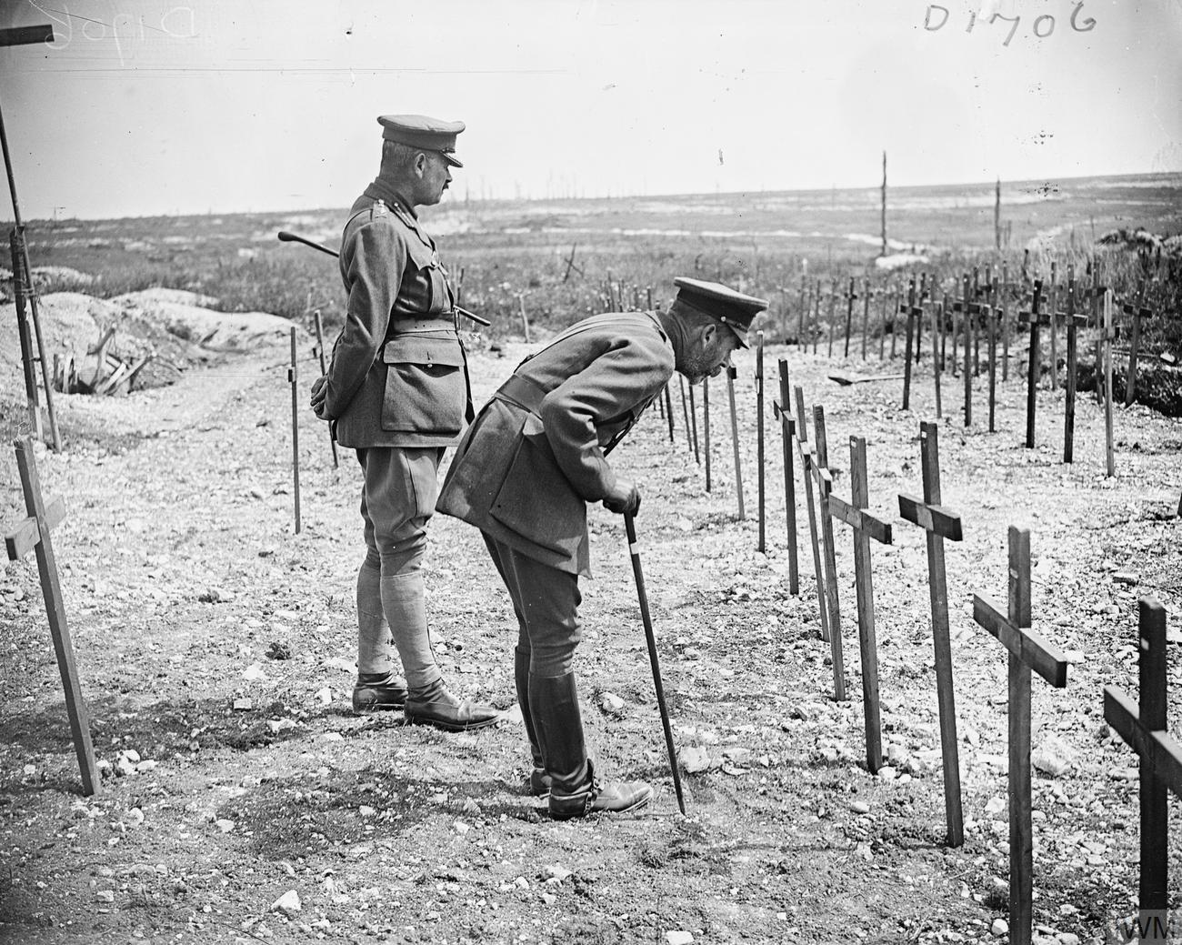 The Royal Visits To the Western Front, 1914-1918 King George V and General Julian Byng visit a war cemetery at Thiepval, 12 July 1917.